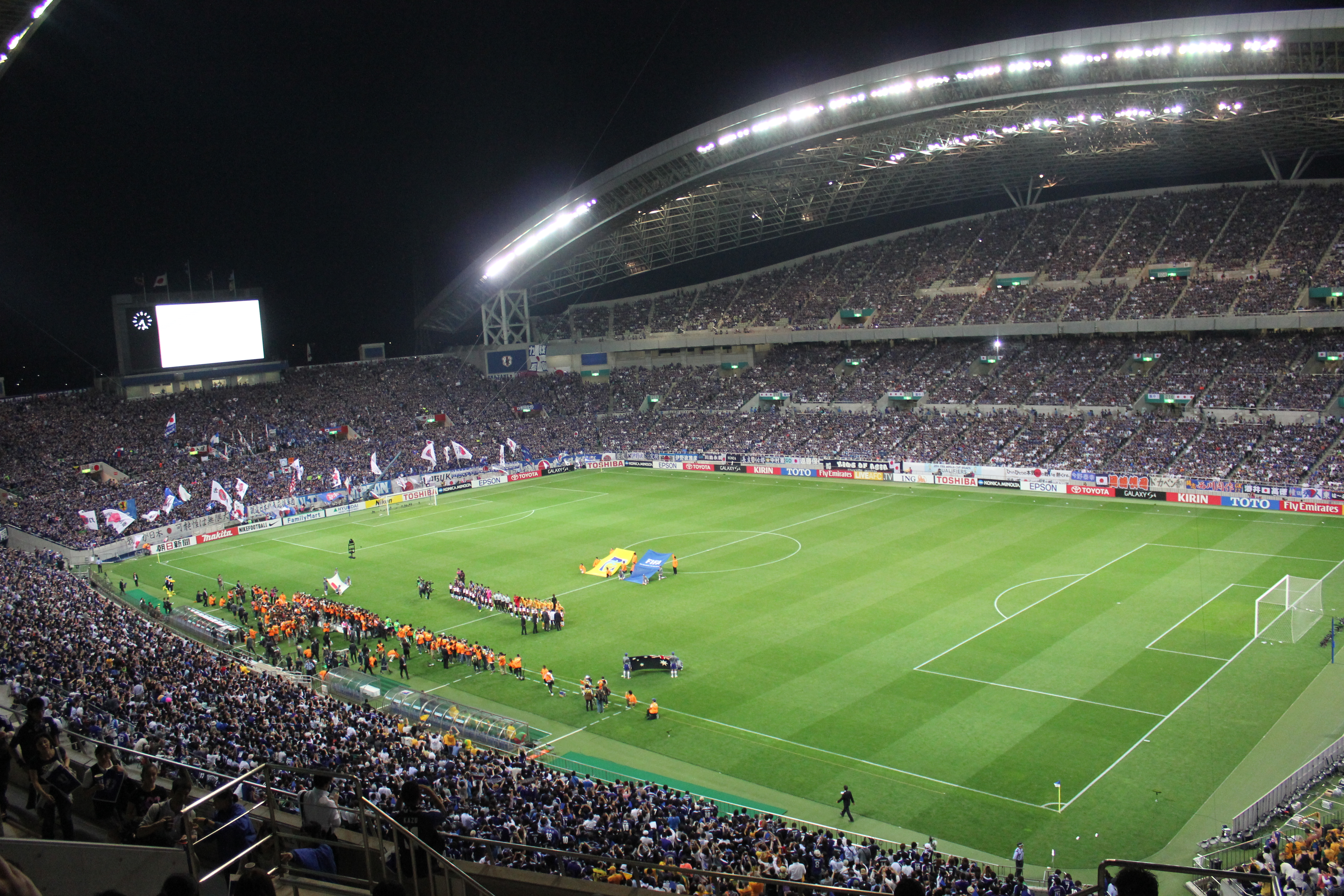 Saitama Stadium 2002. WorldCup Asian qualifying. Japan vs Australia.